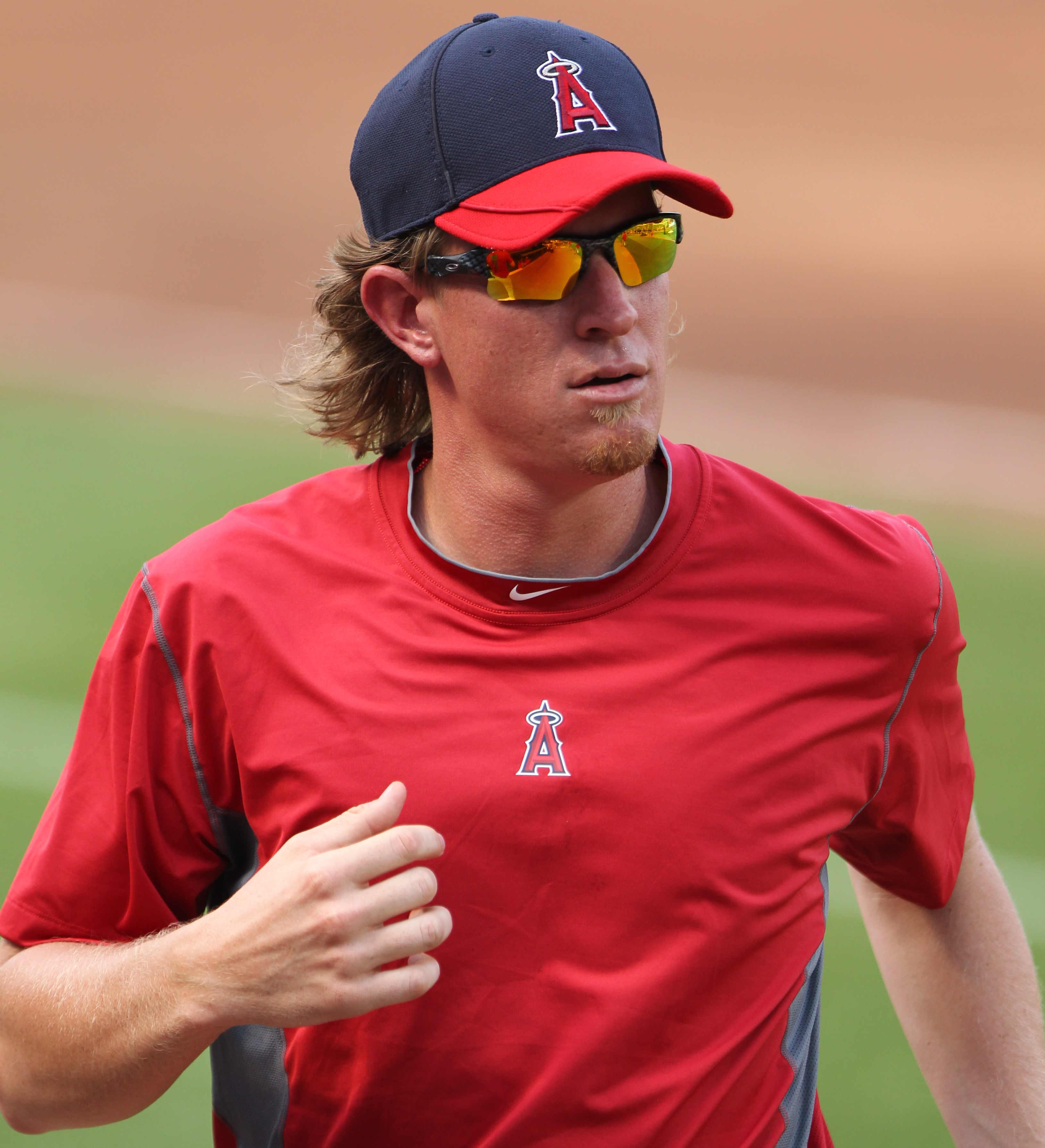 Angels at Orioles July 23, 2011.